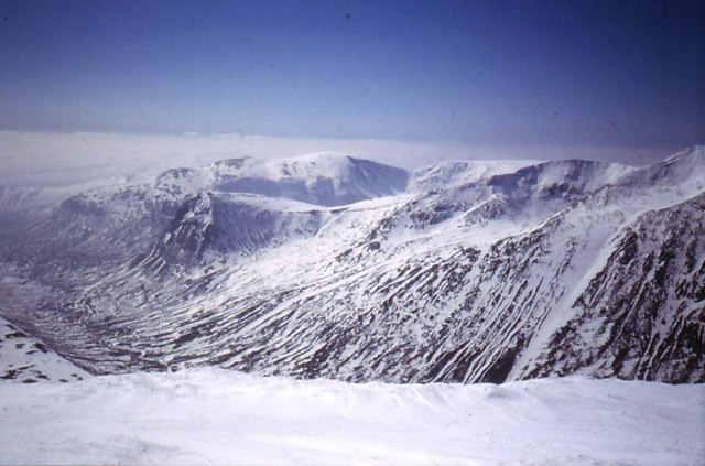 Across the Lairig Ghru from Ben MacDhui. Looking South West from Ben MacDhui to the slopes between The Devils Point and Cairn Toul. In the distance is Benn Bhrotain.